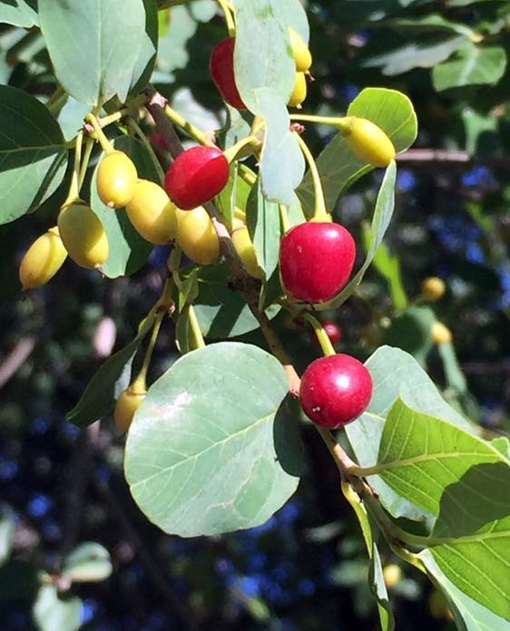 Berchemia zeyheri (Sond.) Grubov - Pretoria, South Africa